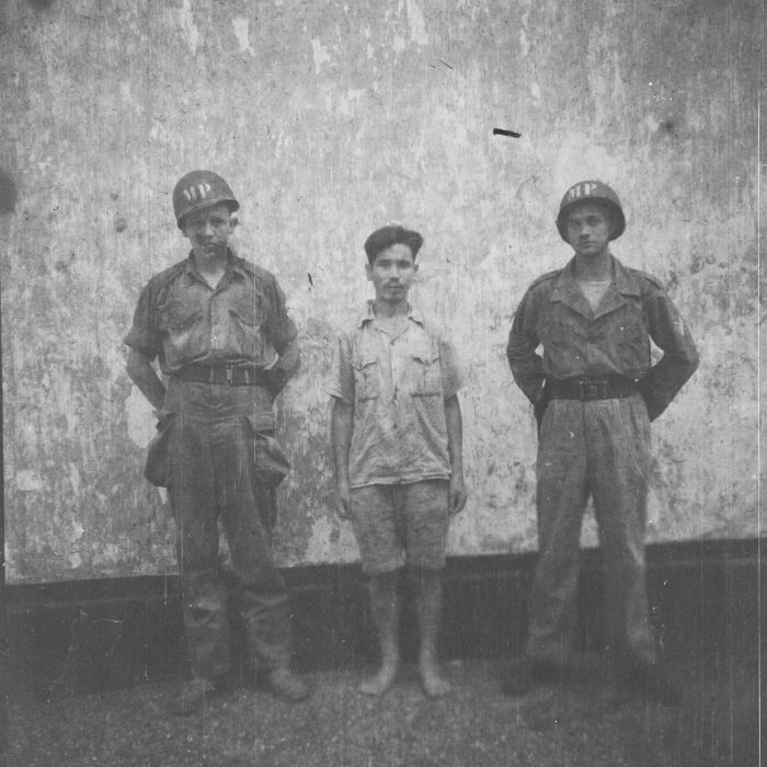 Men from the military police with a prisoner of war from the Republican Army, Banjoemas.